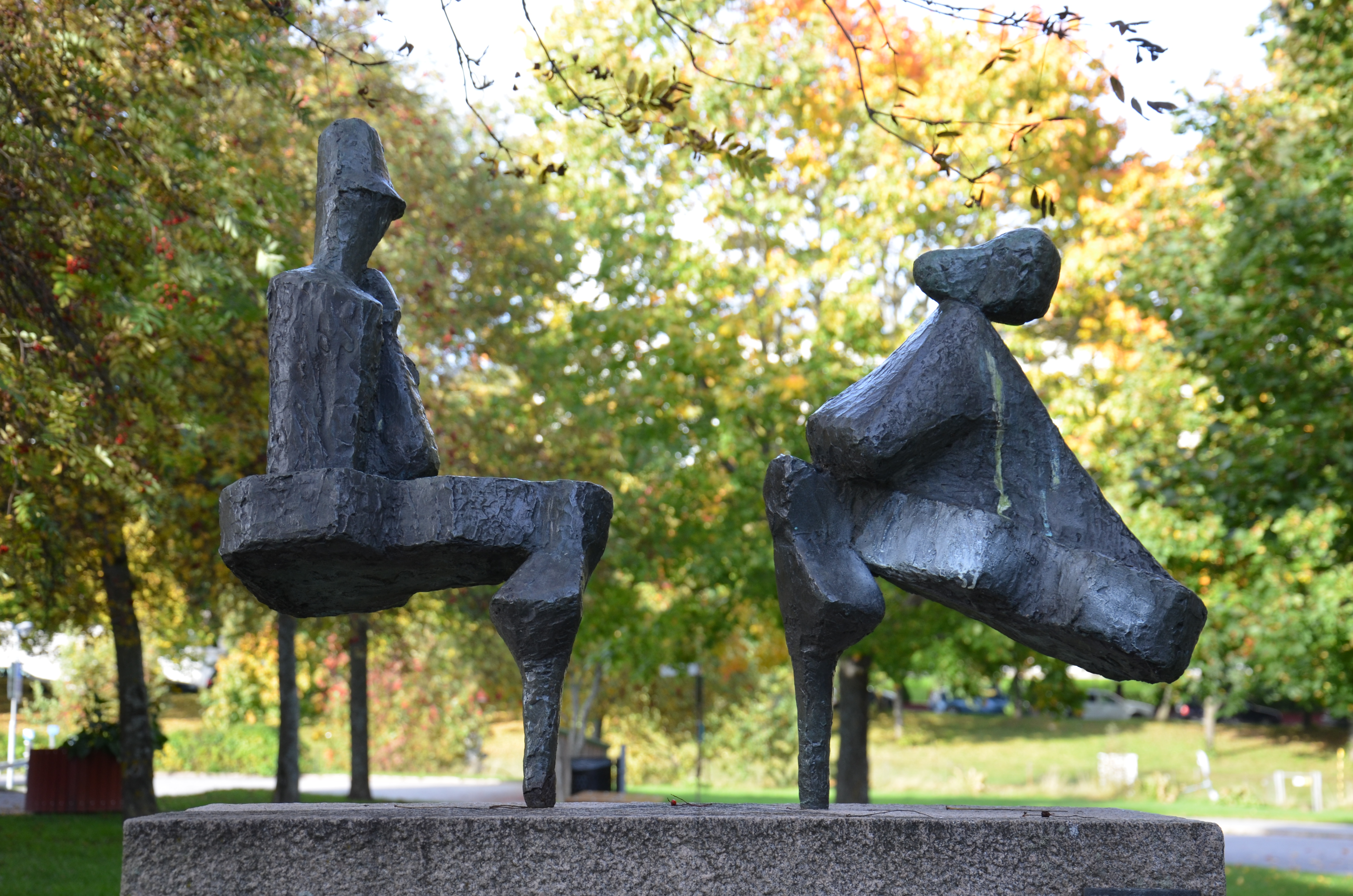 Sculpture Snack by Inga Hellman-Lindahl